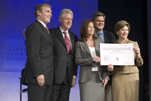 Mrs. Laura Bush announces a $60 million public-private partnership between the U.S. Government and the Case Foundation at President Bill Clinton's Annual Global Initiative Conference in New York Wednesday, September 20, 2006. With her, from left, are: Ray Chambers, Chairman, MCJ and Amelier Foundations; former President Bill Clinton, and Jean Case and Steve Case, founders of the Case Foundation. The partnership will work to provide clean water by 2010 to up to 10 million people in sub-Sahara Africa, where a child dies every 15 seconds due to illnesses related to unsanitary drinking water. White House photo by Shealah Craighead